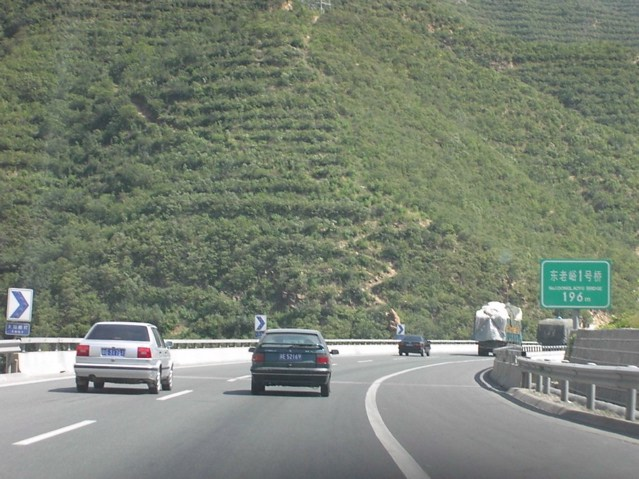 The Badaling Expressway entering Beijing, in the "Valley of Death" (September 2002 image) Captioned As { }